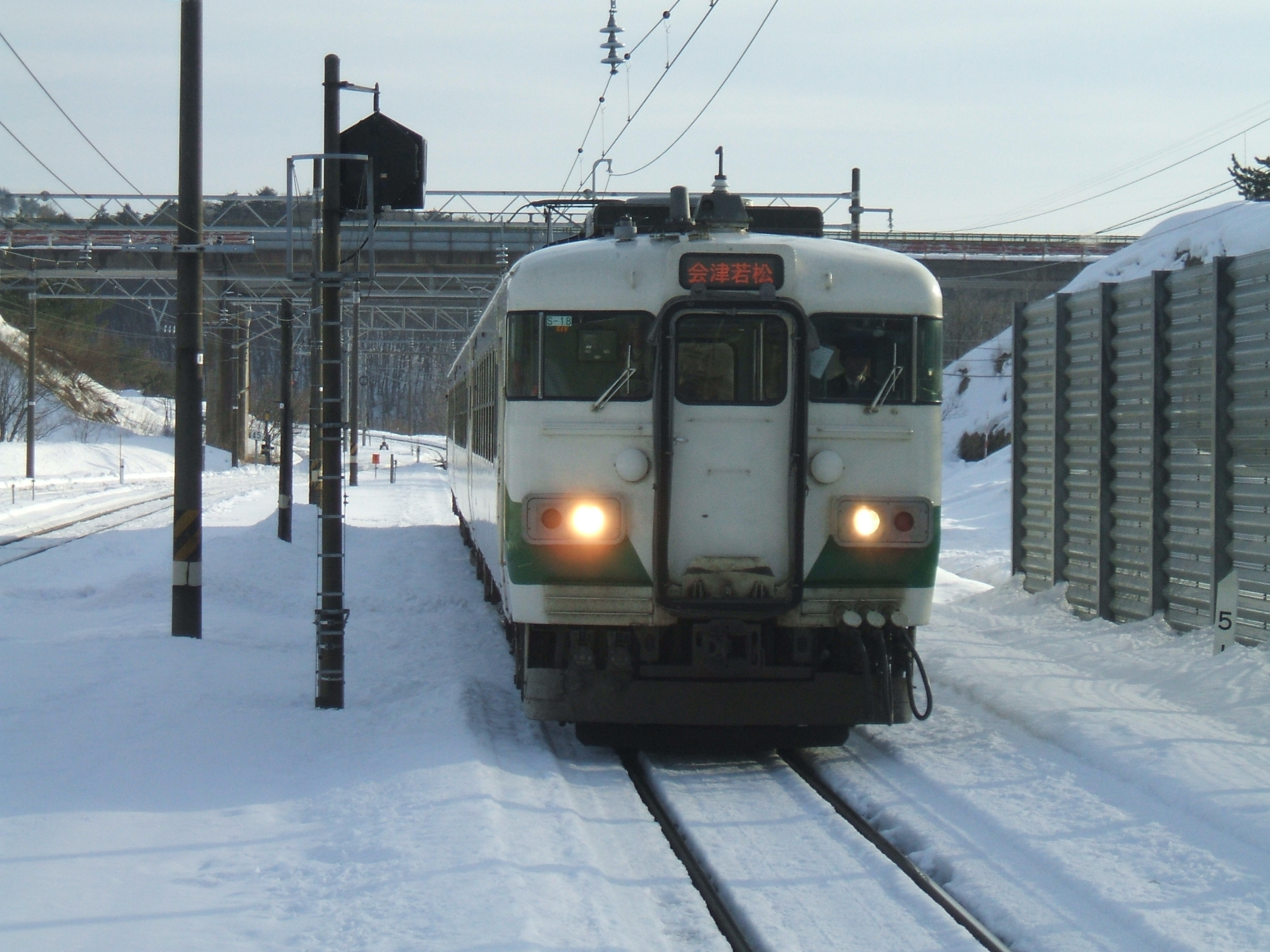 JNR 455 Series EMU at Bandaimachi Station